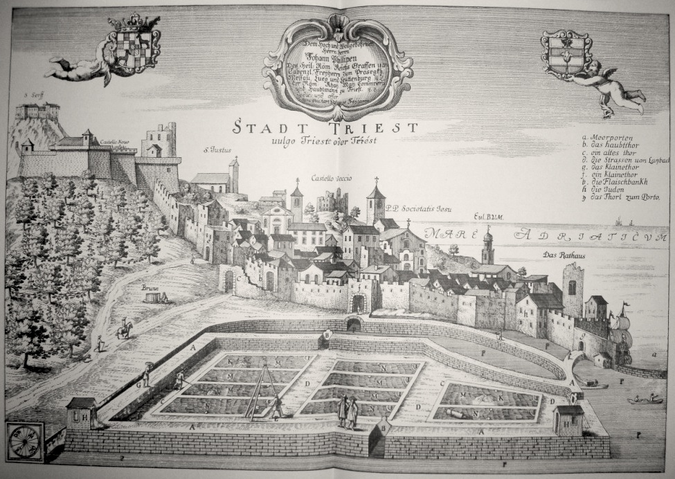 Engraving of Trieste (Italy), Technique: Copper engraving